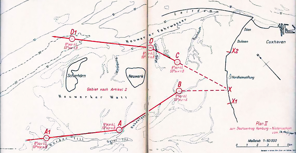 Area of Neuwerk according to the Cuxhaven-Vertrag